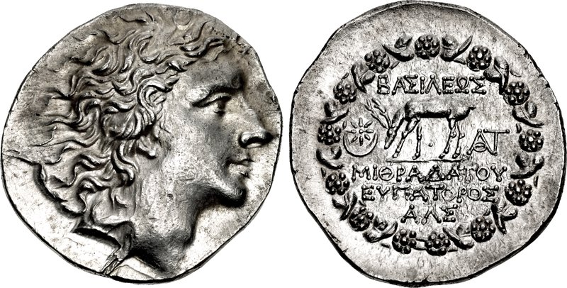 Coin of Mithradates VI Eupator, uncertain mint.